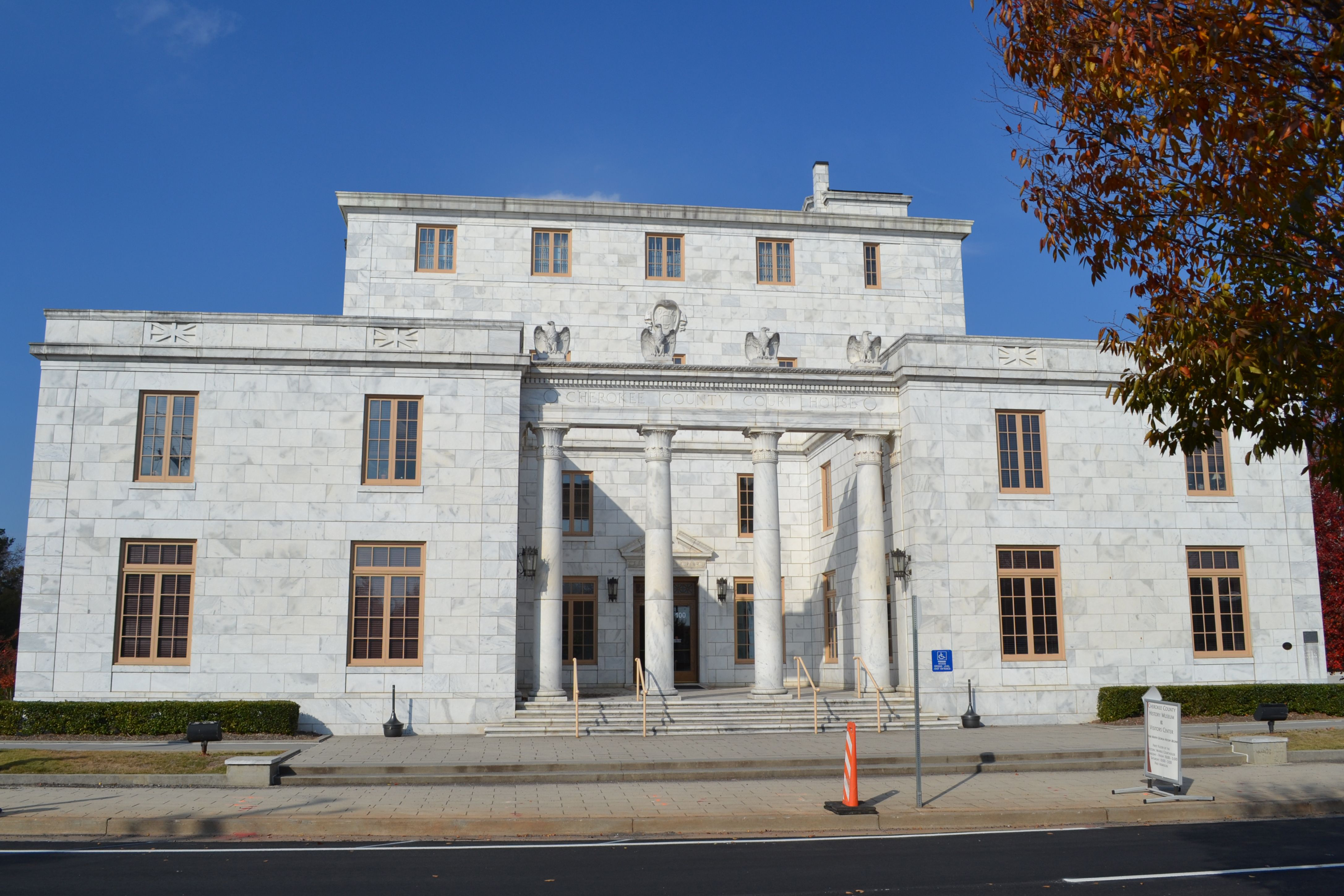 Cherokee County Courthouse